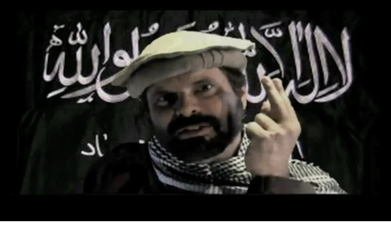 Video Capture of Frank Wuco dressed as Fasal Wasul in "Ask the Jihadist"